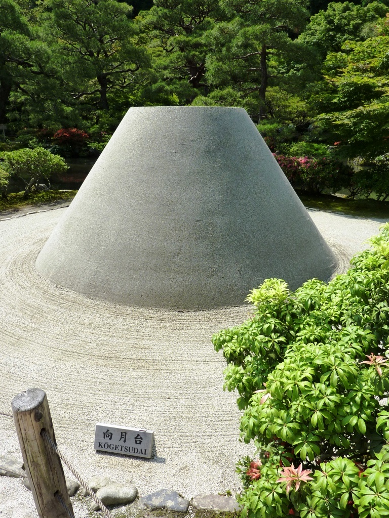 I took this photo on a trip to Japan in 2010.